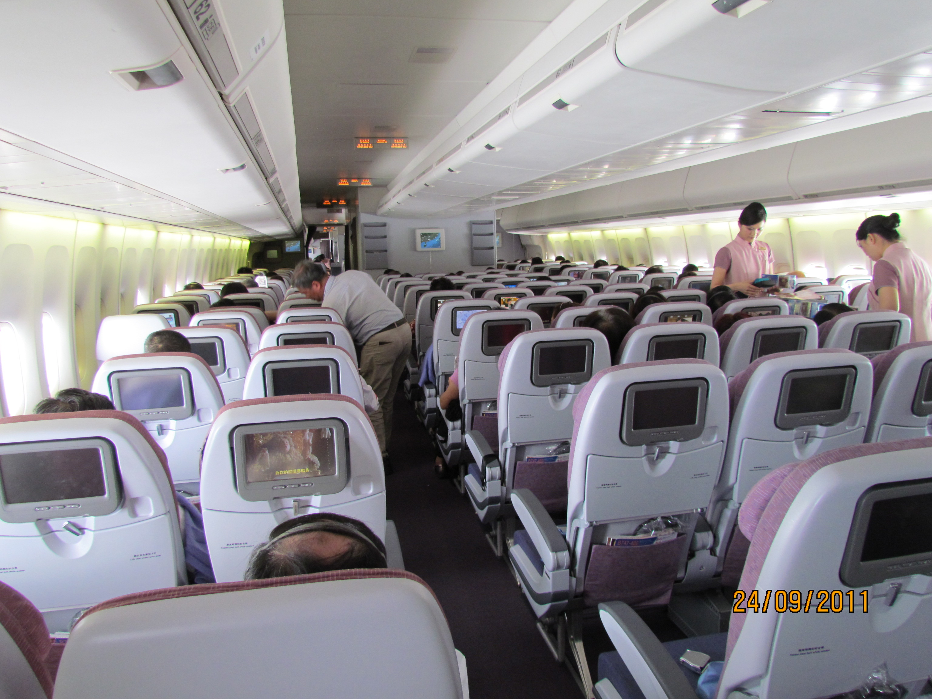 Renovated cabin of a China Airlines B747-400 (B-18207)